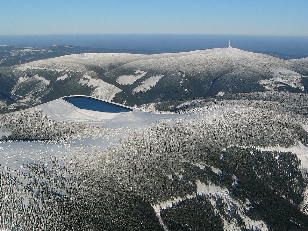 Aerial view of upper reservoir of Dlouhé Stráně pumped-storage hydroplant with the Praděd in the background.